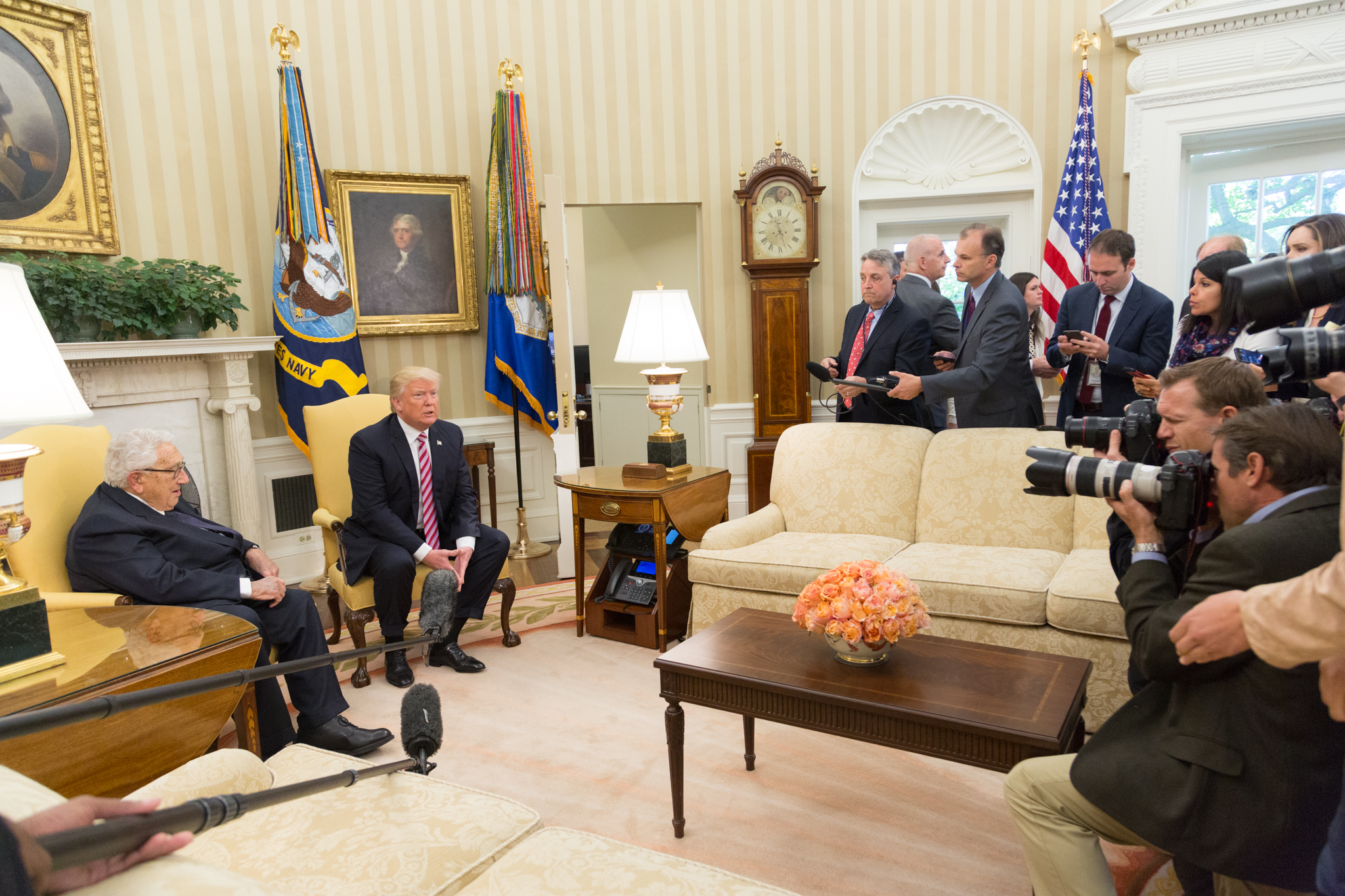 President Donald Trump speaks with reporters during his meeting with former National Security Advisor and Secretary of State Henry Kissinger, Wednesday, May 10, 2017, in the Oval Office of the White House in Washington, D.C. (Official White House Photo by Shealah Craighead)